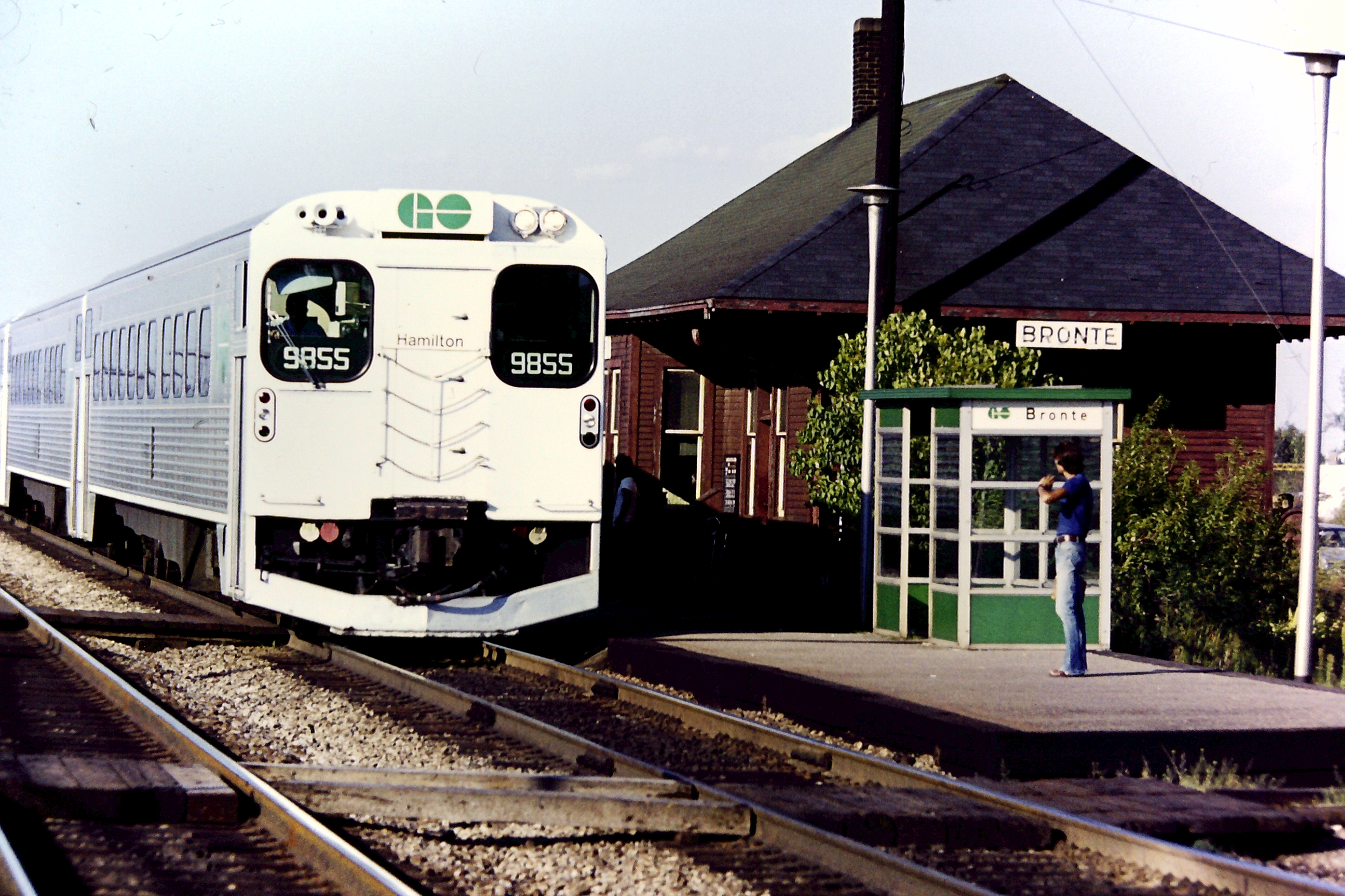 Bronte GO Station in 1971 This historic building was located on the east side of Bronte Road south of the tracks not at the same location as the present GO Station.